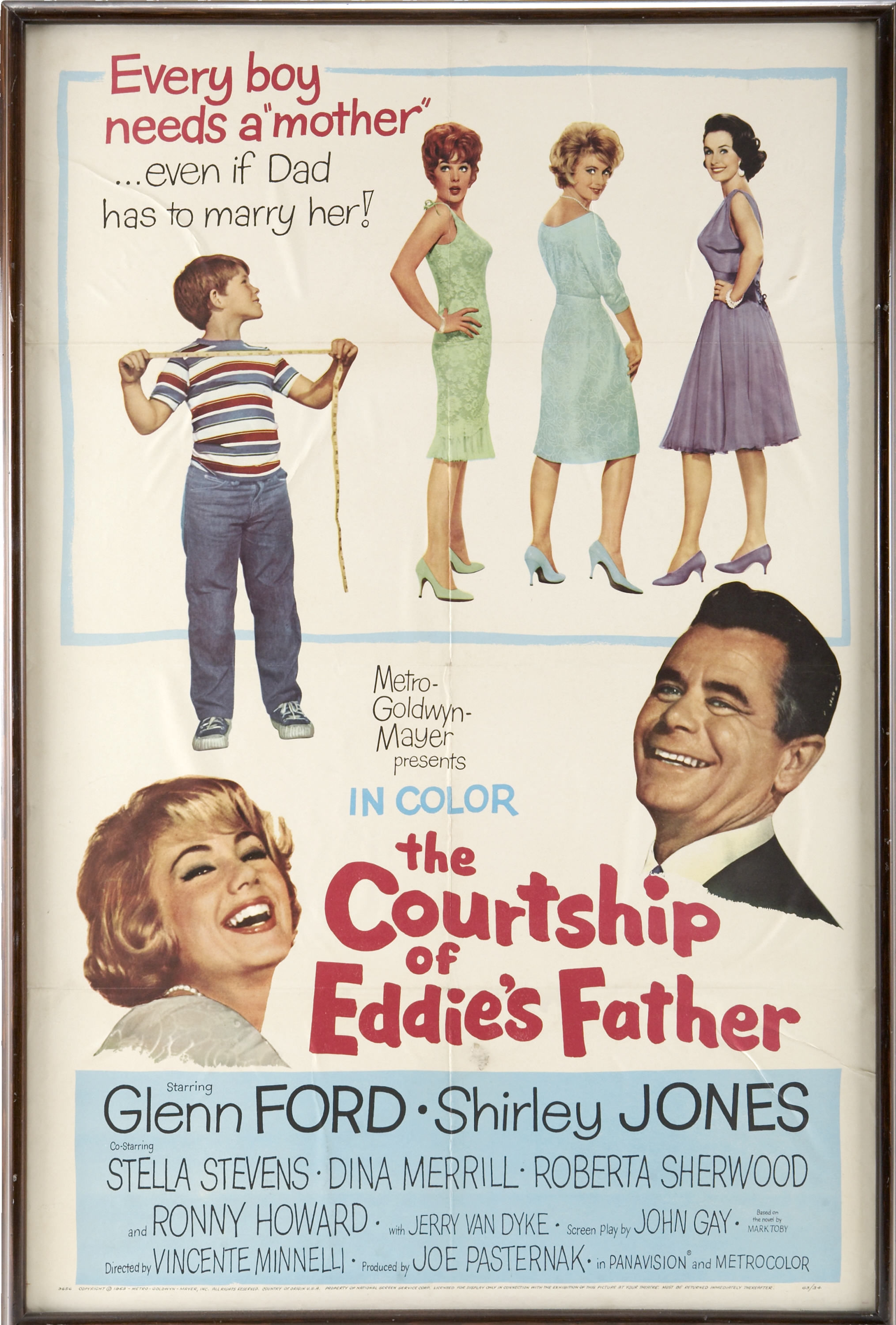 Theatrical poster for the film The Courtship of Eddie's Father (1963)